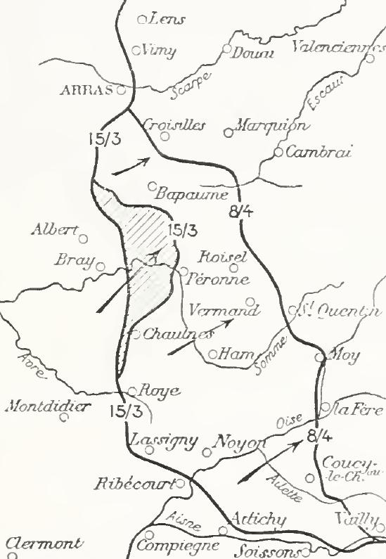 German withdrawals towards the Hindenburg Line, March-April 1917